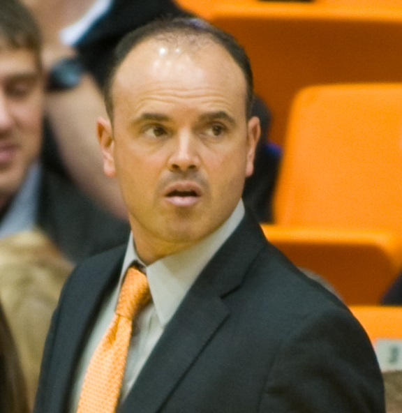 Oregon State University women's basketball head coach Scott Rueck during the Jan. 14, 2012 game against Arizona.